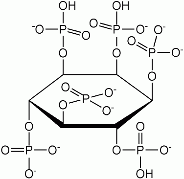 Description: Chemical structure of Phytate Author, date of creation: selfmade by Shaddack, 4 November 2005 Source: self-made Copyright: Public Domain (PD) Comments: b/w hires PNG; ChemDraw